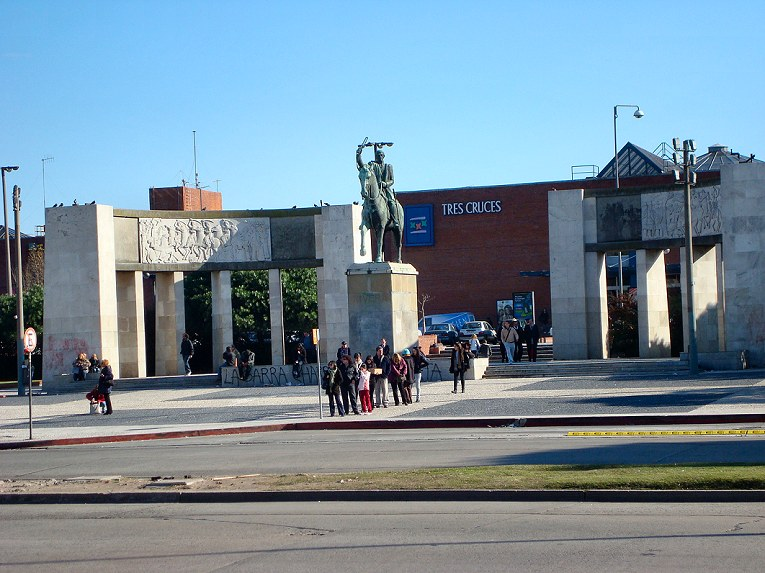 The statue of Fructuoso Rivera in front of the Tres Cruces Shopping.